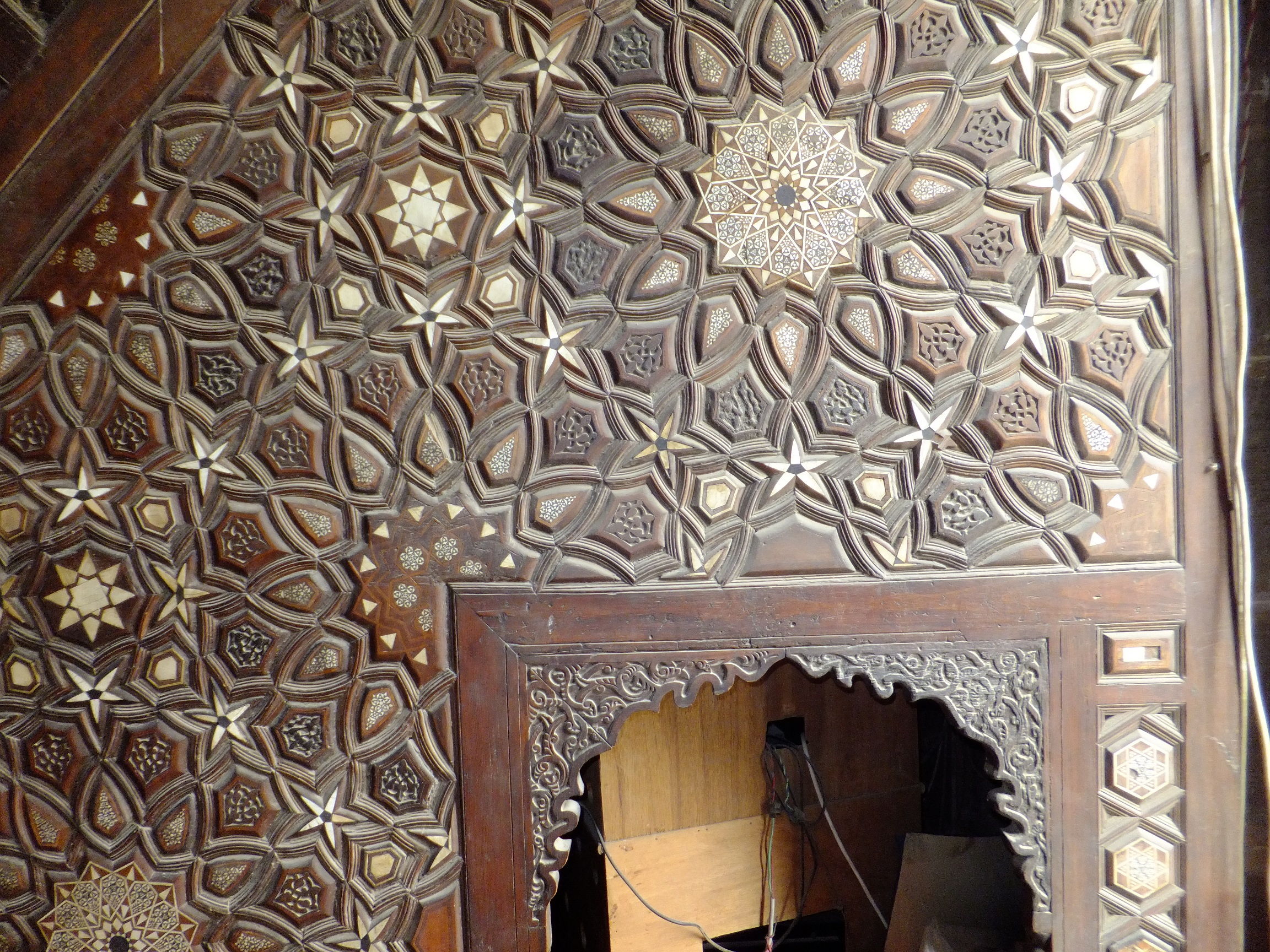 Details of the minbar of al-Ghamri in the prayer hall of Complex of Barsbay in the Northern Cemetery, Cairo.